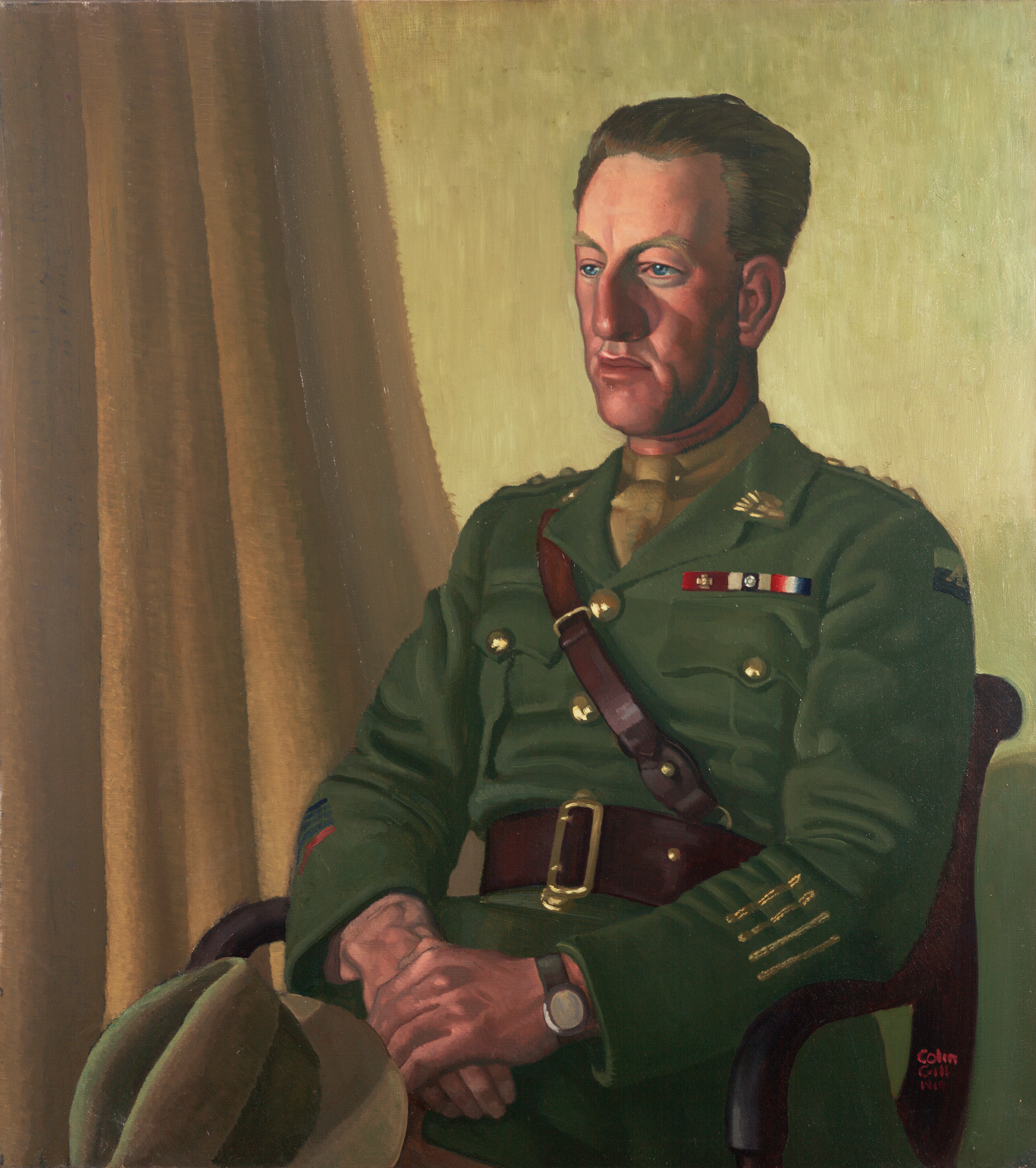 Seated portrait of Captain Jacka - cropped to remove pantone markers.